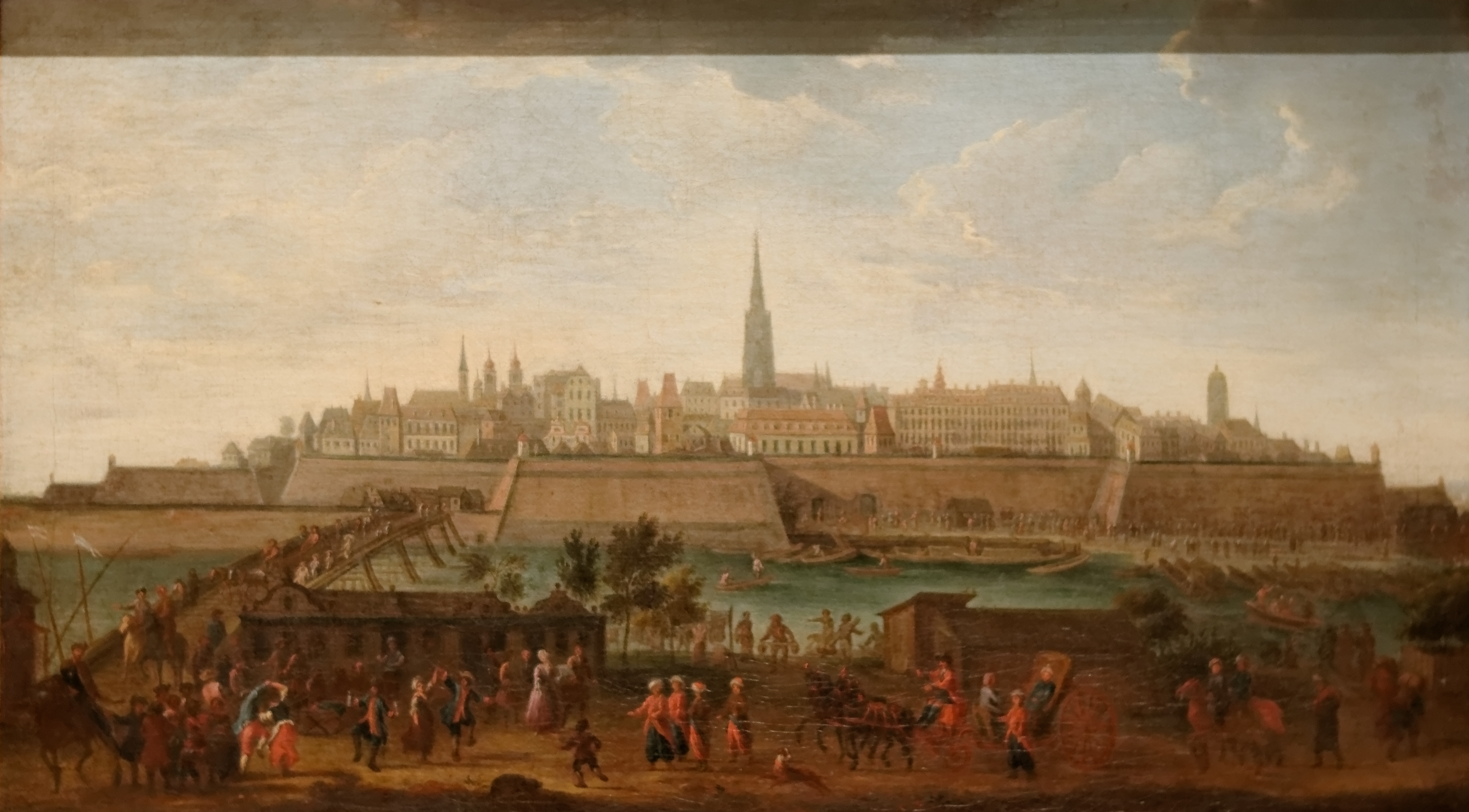 View of the city center of Vienna (Austria) looking towards Rotenturmtor, ca 1740. Johann Adam Delsenbach (1687-1765). Wien Museum, Vienna (Austria)